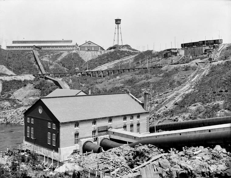 Power House and Aluminum Works at Shawinigan Falls, Quebec.